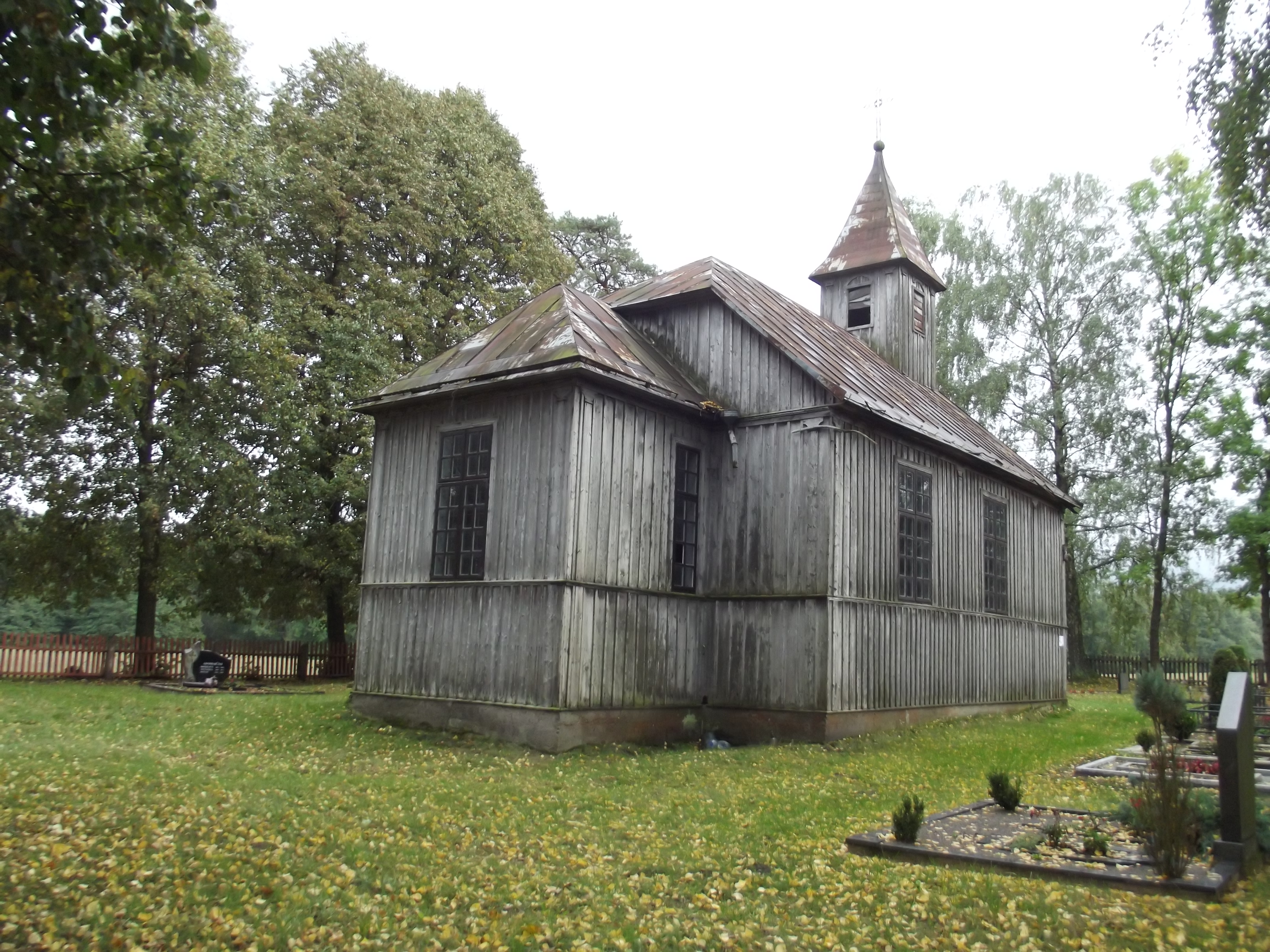 Chapel in Parausiai, Vilkaviškis District, Lithuania